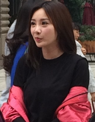 Ada Liu and Peng Yu were filming the comedy television series A First Forward in Changsha, Hunan, China. 中文（中国大陆）: 柳岩和彭宇在湖南省长沙市喜盈门范城拍摄喜剧题材电视剧《一家老小向前冲》。